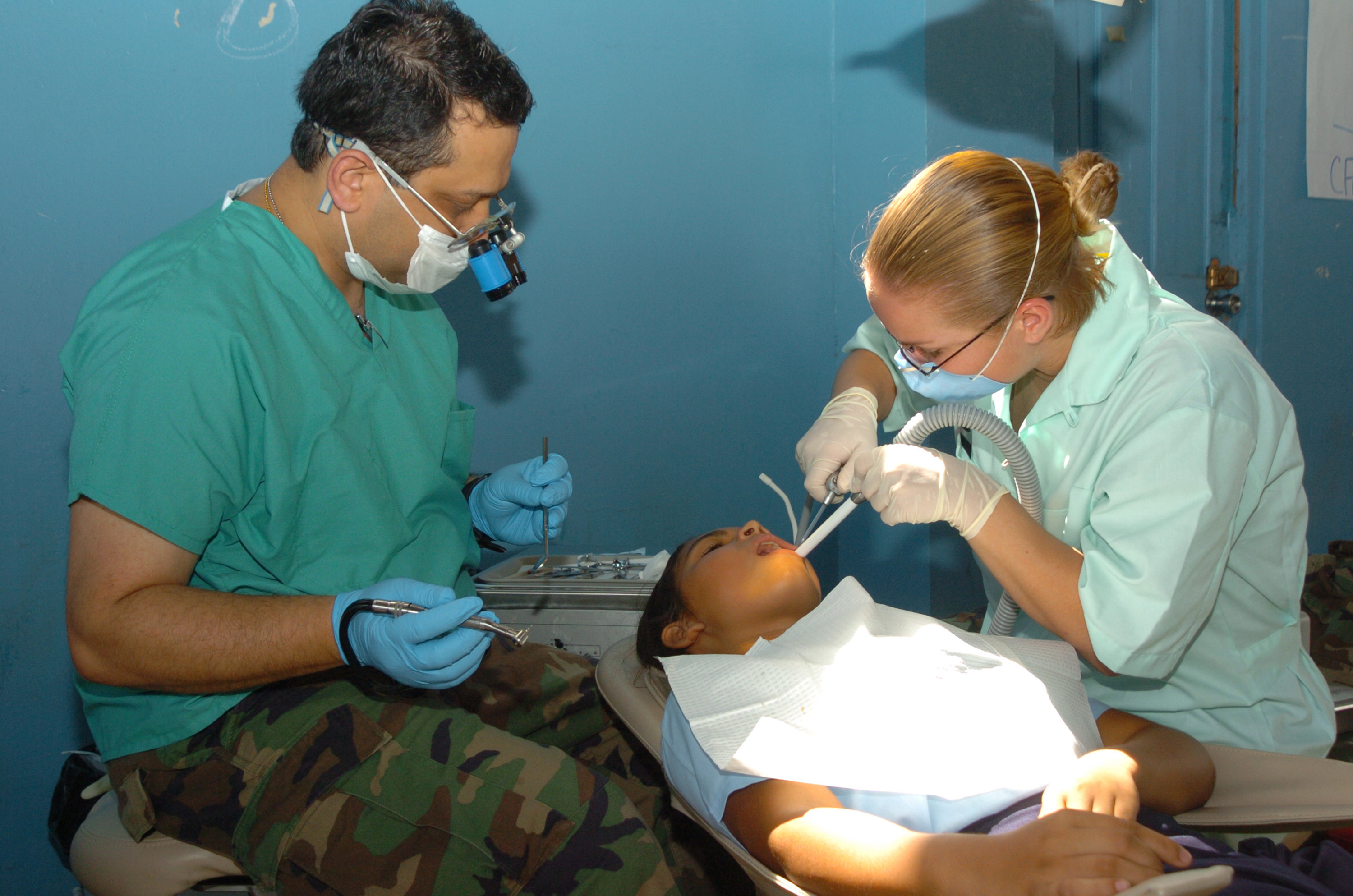 Army Dentist Capt. Rajesh Sondkar (left) watches as Spc. Jamie McKay washes and suctions a patient's mouth during a Dental Readiness Training Exercise during New Horizons '05 in Macaracas, Panama, on April 15, 2005. New Horizons '05 is a humanitarian assistance project sponsored by U.S. Southern Command held in the province of Los Santos, Panama. The project will build community centers and schools as well as providing basic medical and dental care. Sondkar and McKay are attached 307th Medical Command Dental Services, San Pablo, Calif.